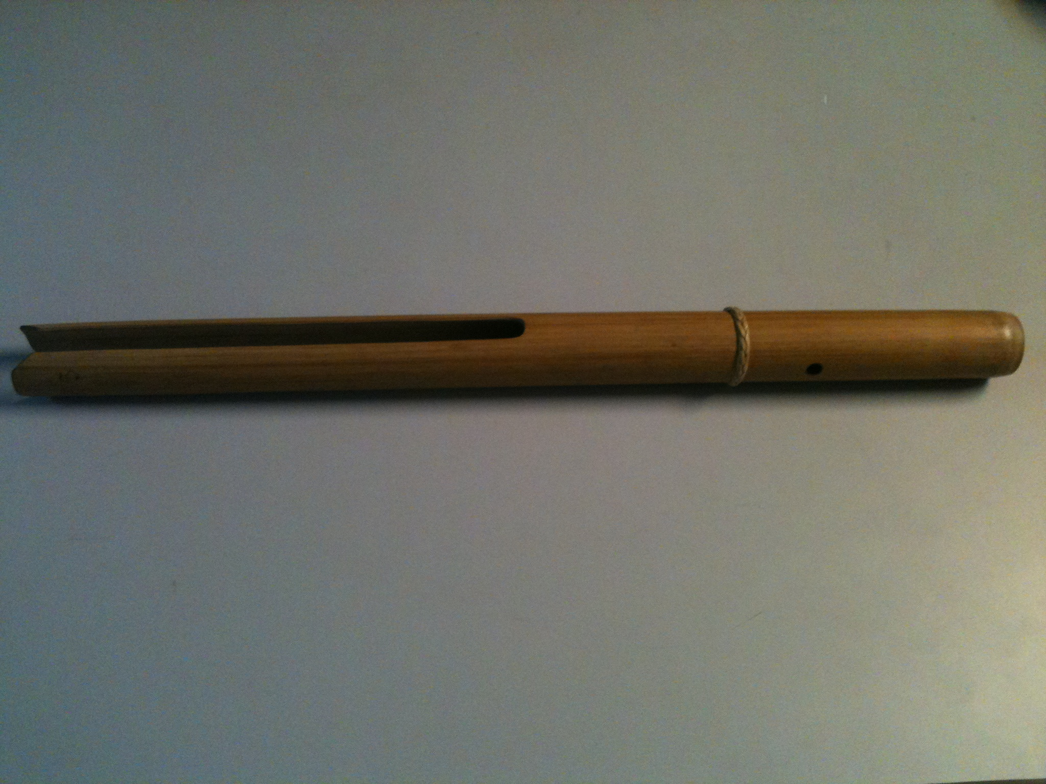 A photograph of the bungkaka or bamboo buzzer. Picture taken using a camera phone.